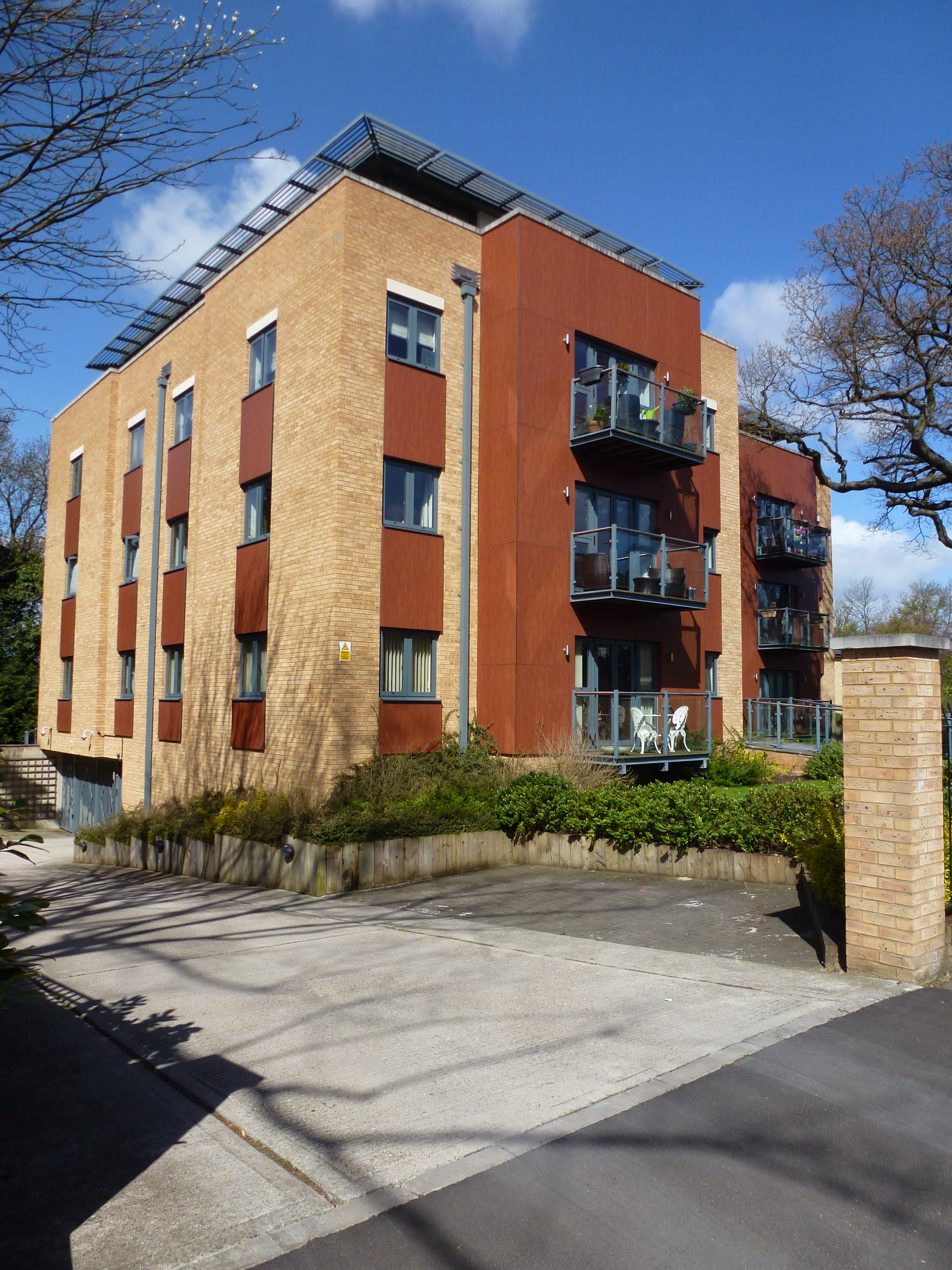 Sydenham Hill, SE26